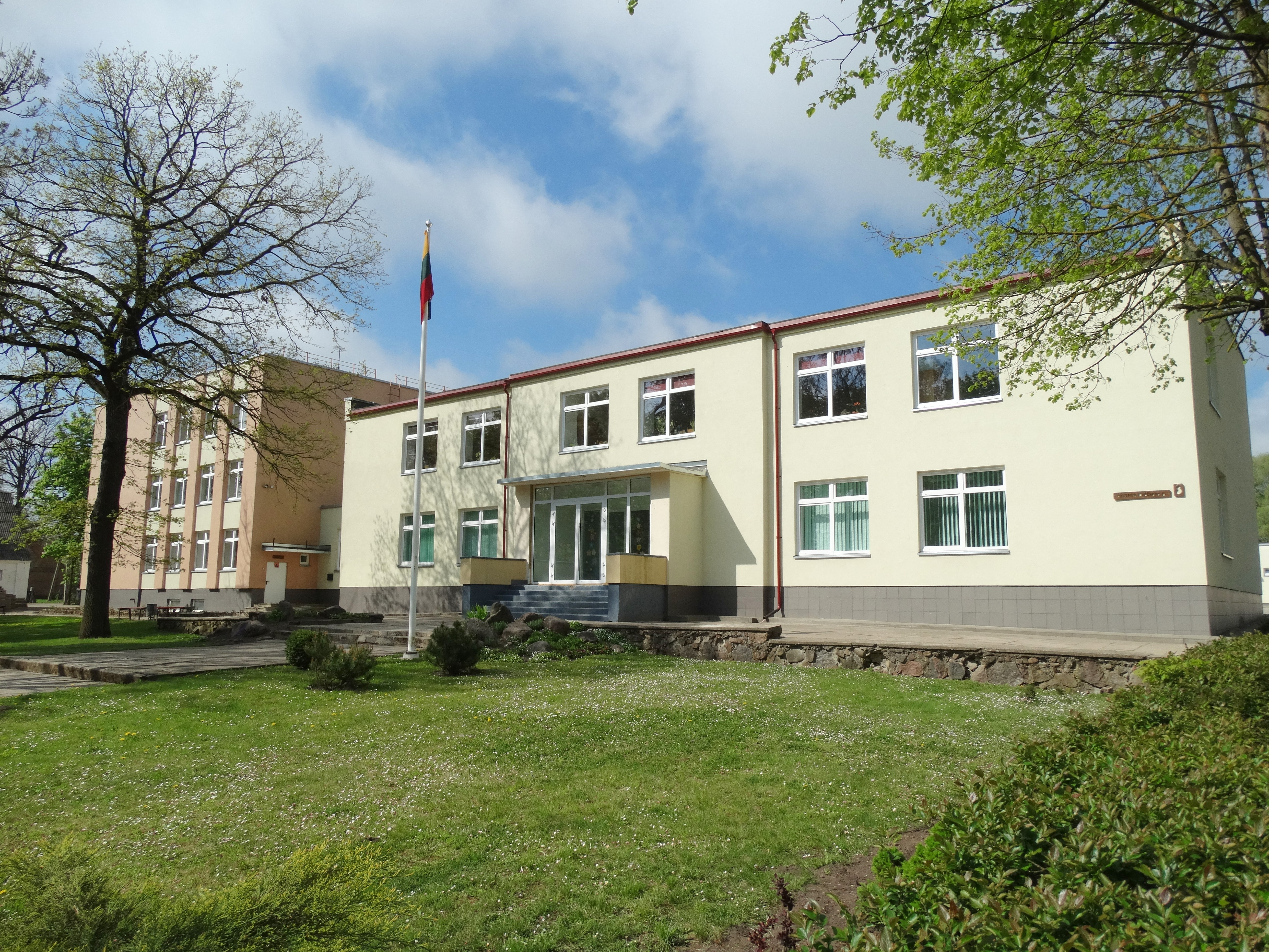 Gymnasium, Žeimelis, Lithuania